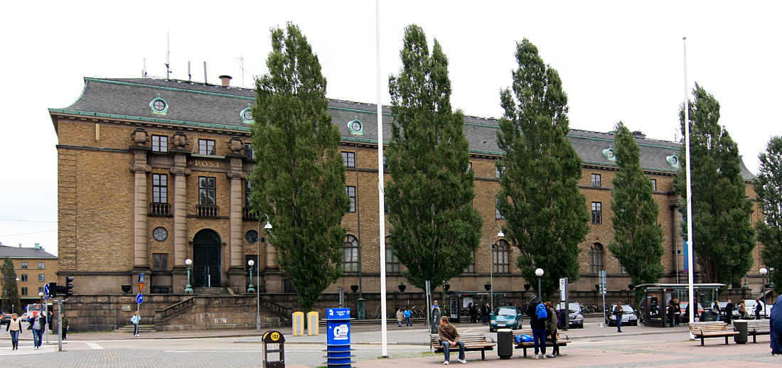 General Post Office, Göteborg. Curry Gabriel Treffenberg (1791-1875) was born in this building.